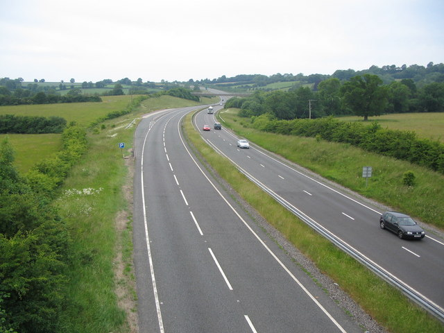 A303 near Bourton. A view looking west from the overbridge carrying the lane to west bourton over the A303 dual carriageway.